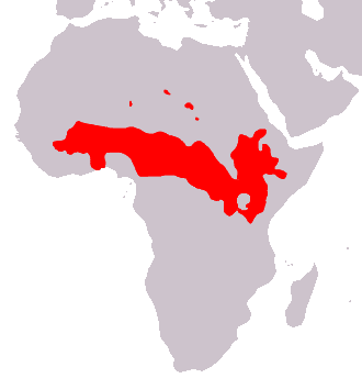 Geographic distribution of the Olive Baboon (Papio anubis).